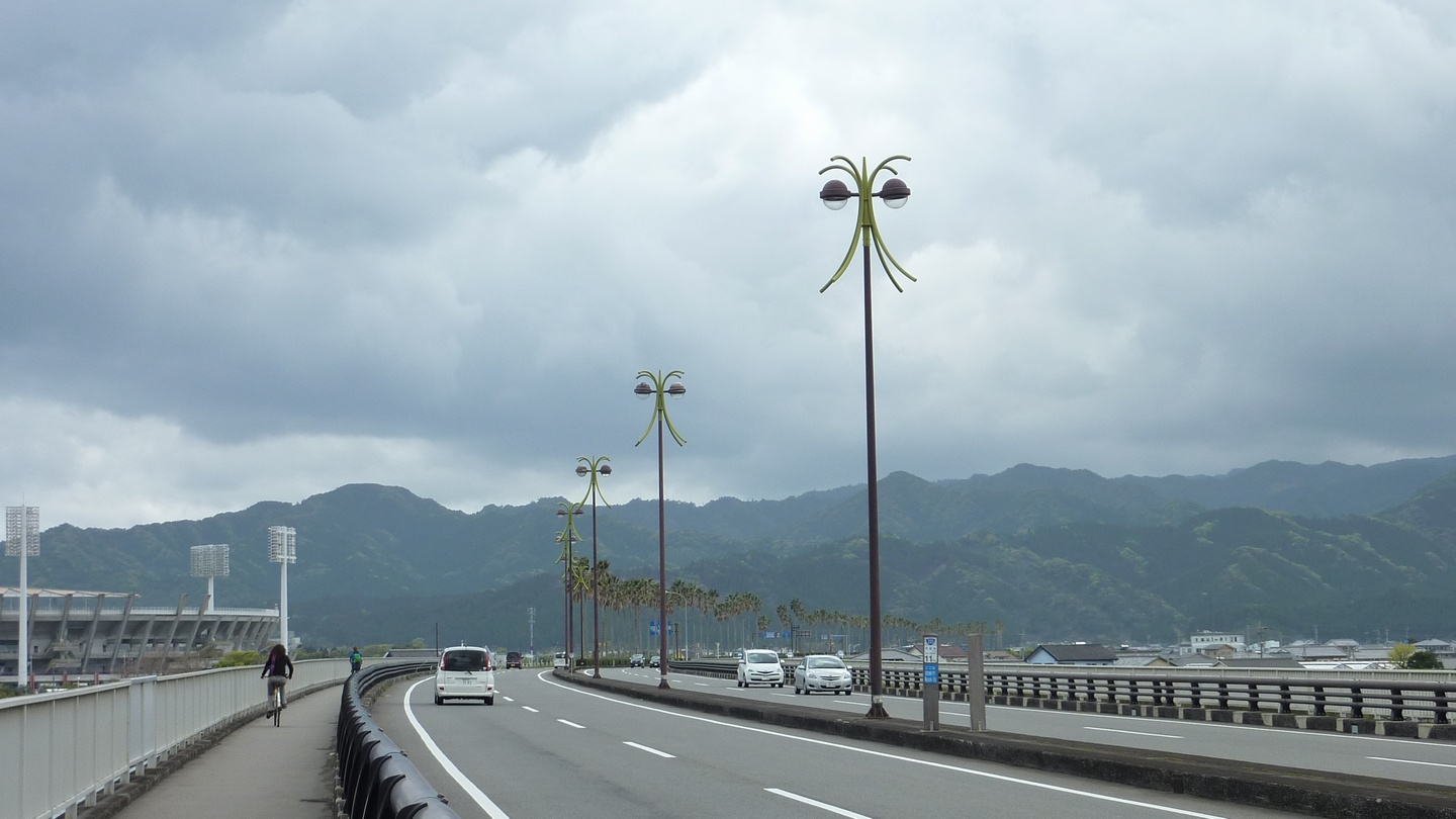 National Route 220 South Miyazaki Bypass - Kisaki Bridge (Kumamo, Miyazaki City, Japan)